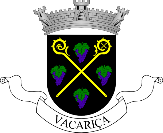 A new and improved coat of arms of Vacariça.